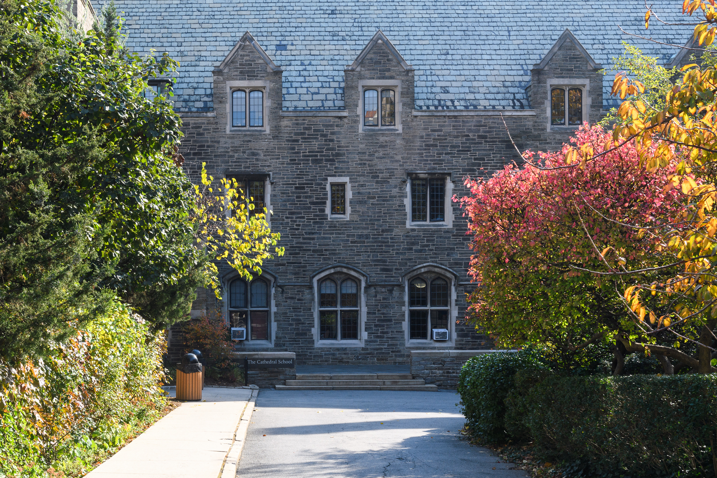 Front view of the school.